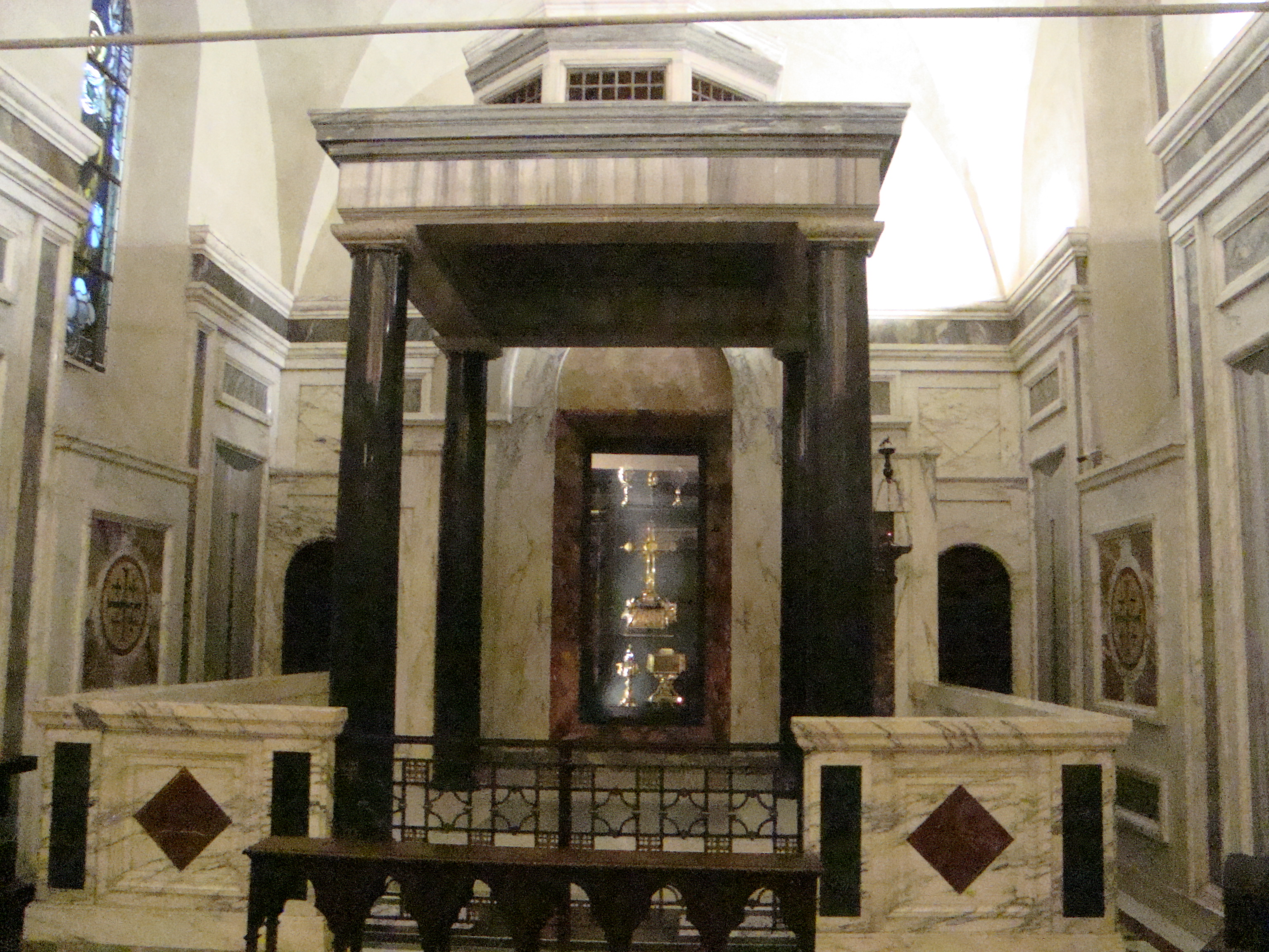 The Holy Chapel in Santa Croce in Gerusalemme holding the relics of the Cross, Spine, and Nail